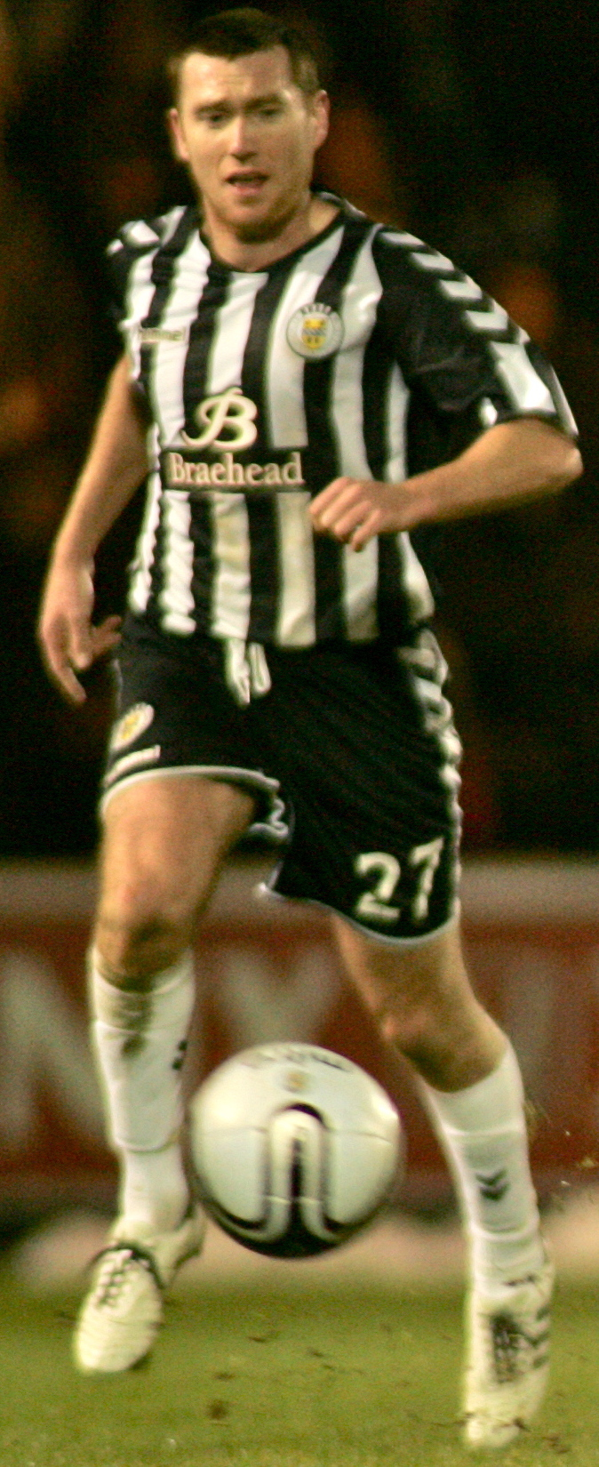 Patrick Cregg, St Mirren vs Hearts